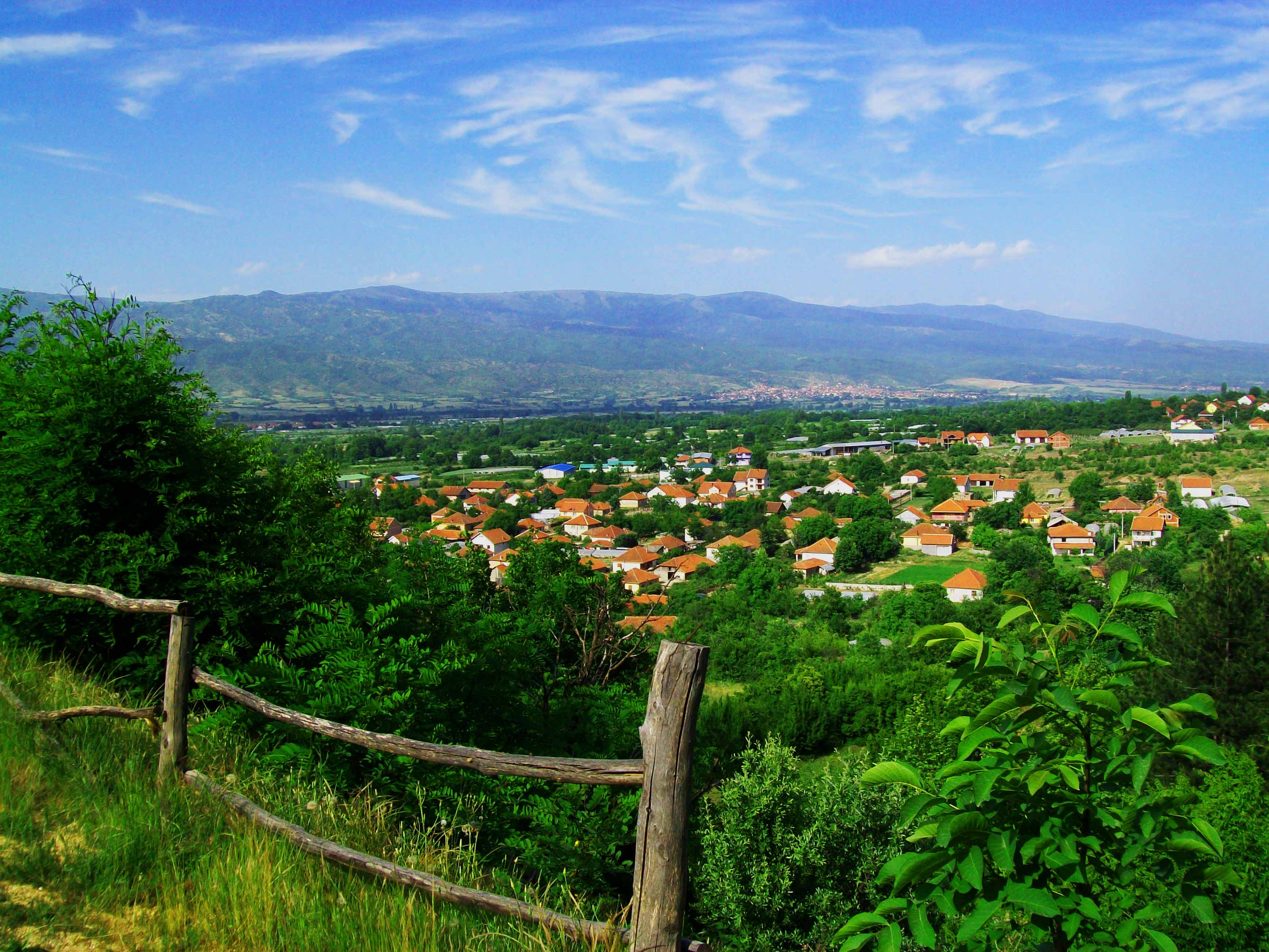 View to Koleshino village, located under Mount Belasica